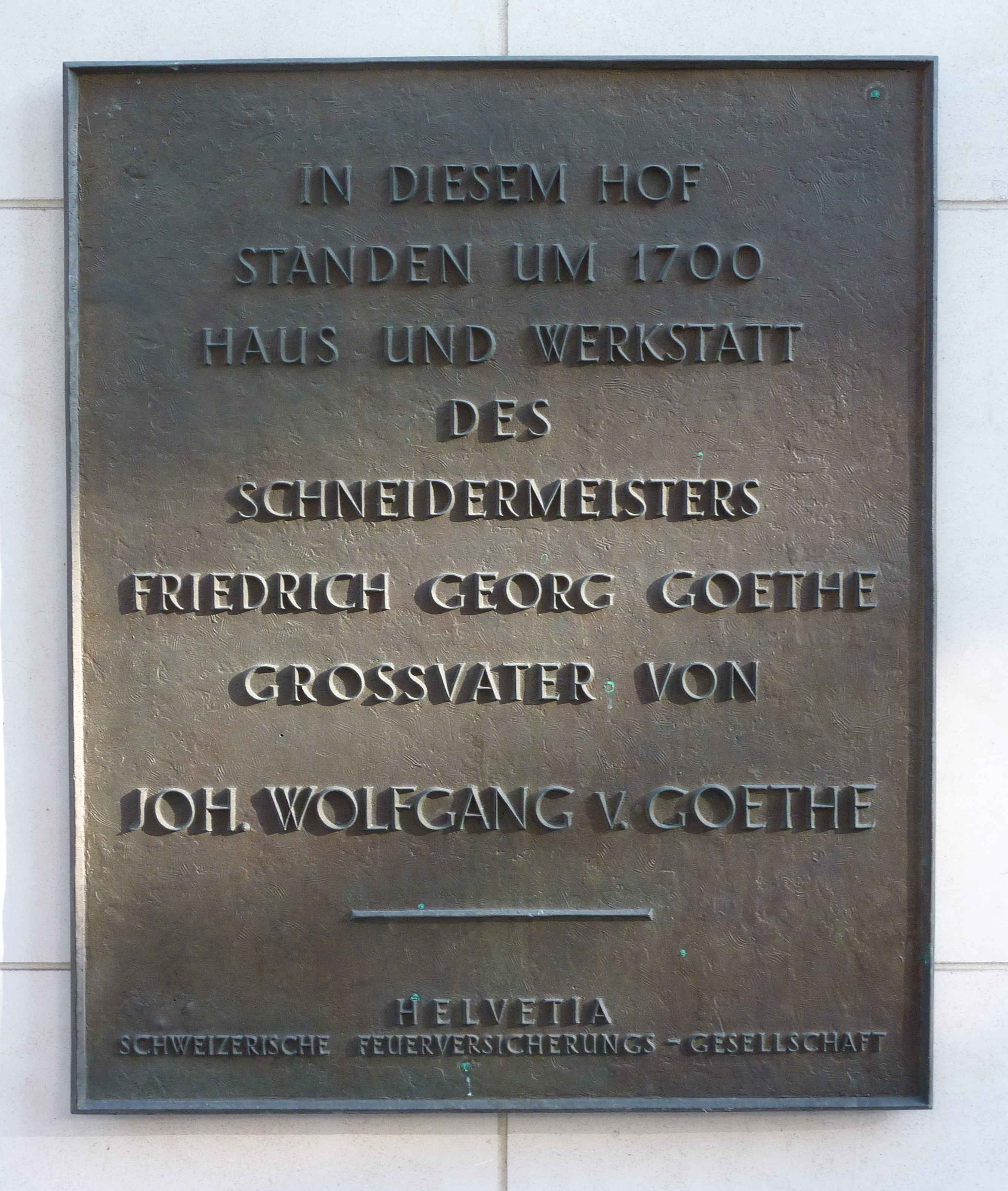 Frankfurt/M., Germany: Plaque commemorating Friedrich Georg Goethe, grandfather of Johann Wolfgang Goethe, in the center of town